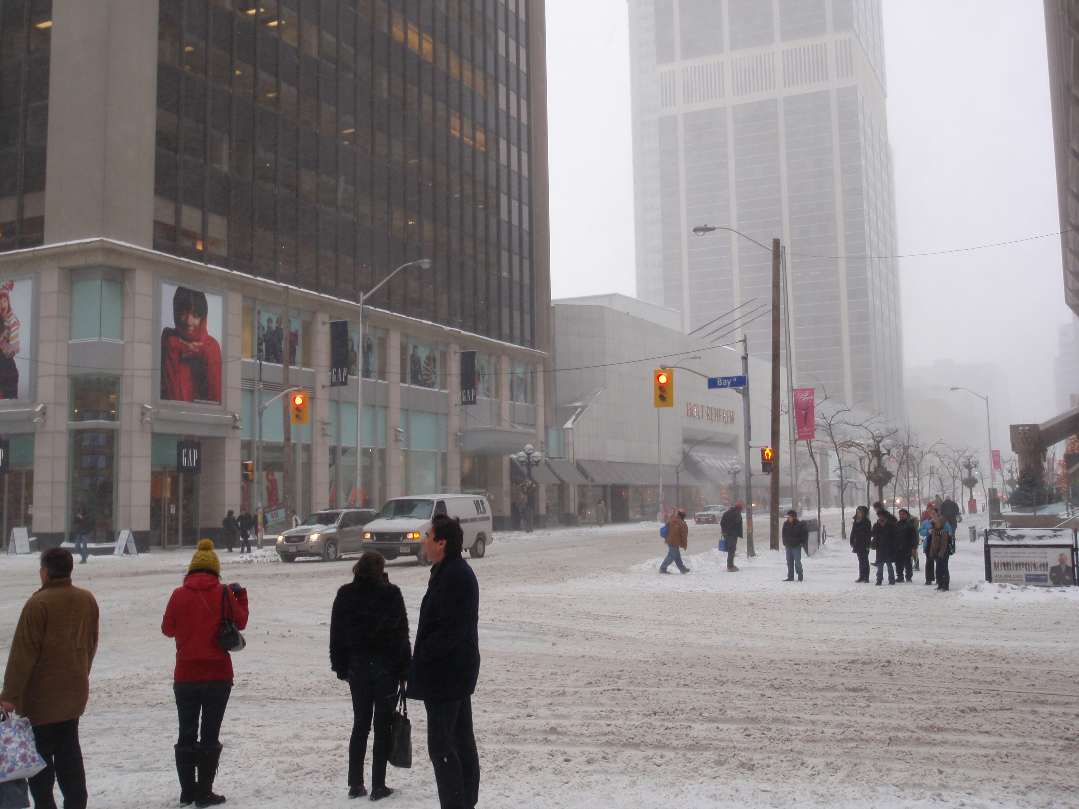 Taken at lunch time on Friday